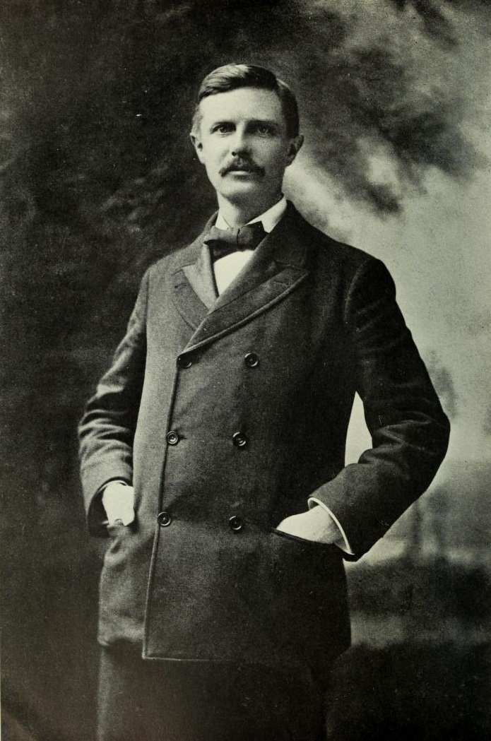 Picture of Frederick Jackson Turner